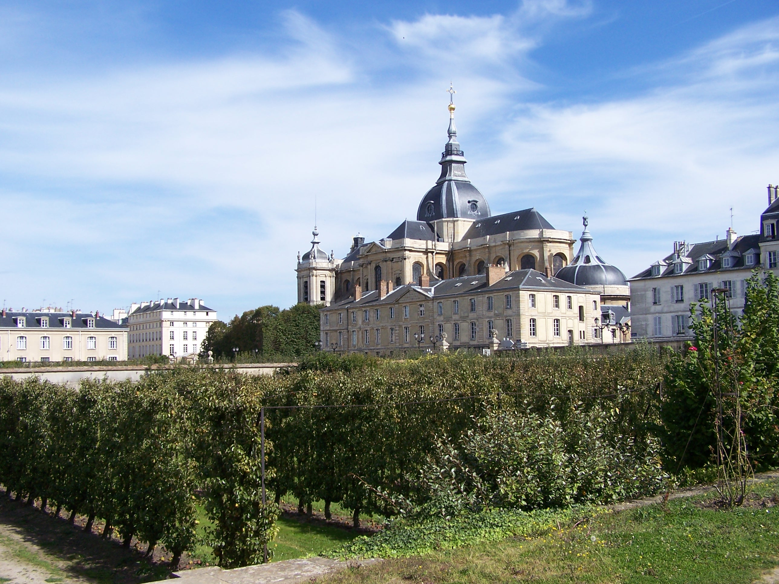 The Potager du Roi and the cathedral Saint-Louis in Versailles (Yvelines, France)